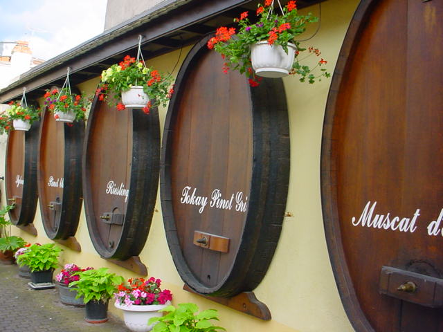 Wine barrels in Alsace, France, for wines of several notable varieties.